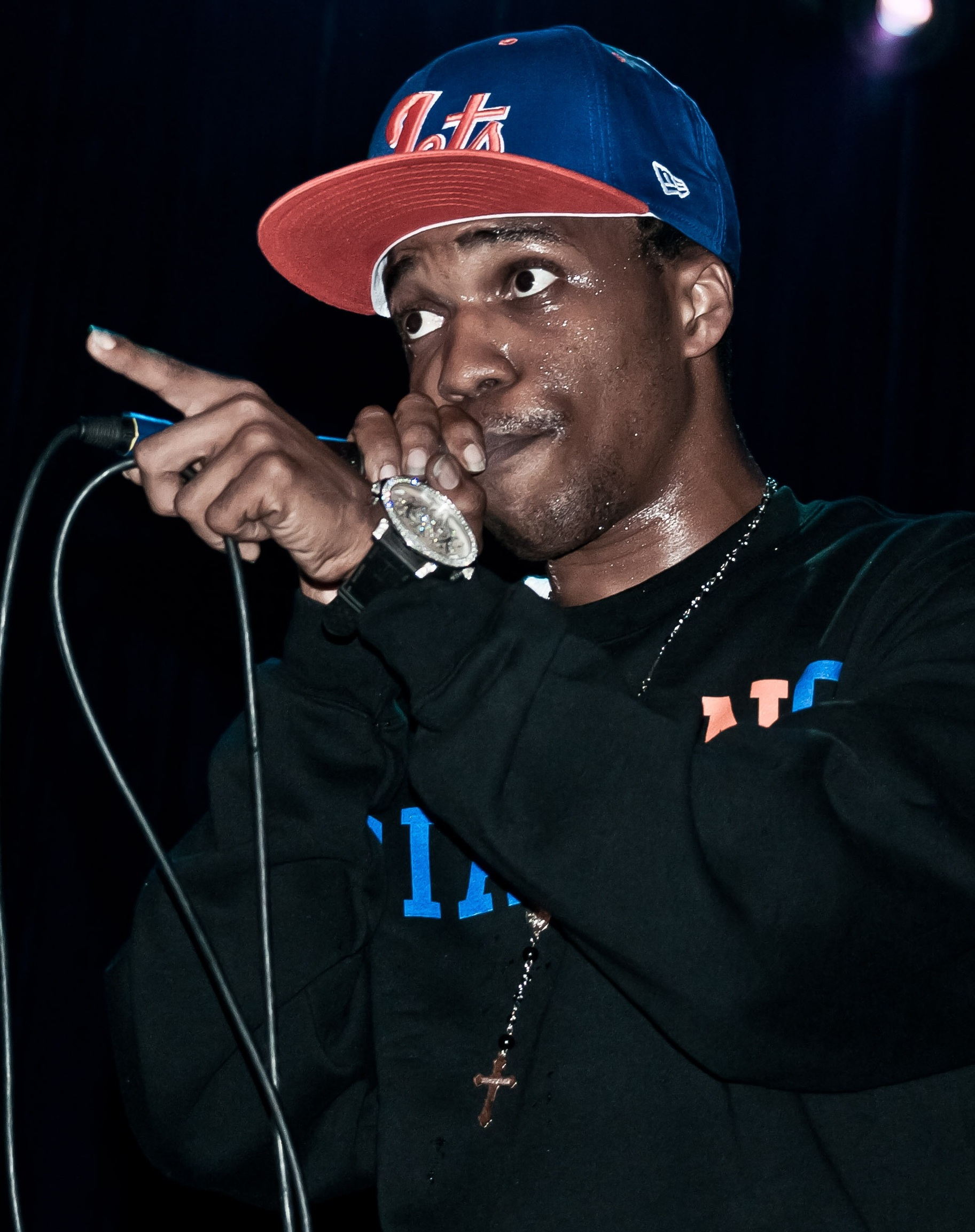 Currensy.